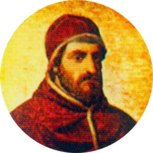 Portait of Pope Clement V in the Basilica of Saint Paul Outside the Walls, Rome